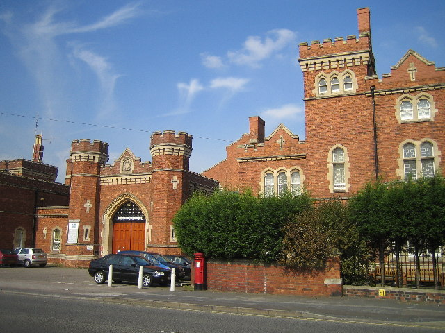 HM Prison Lincoln opened in 1872 and now housing over 400 prisoners.